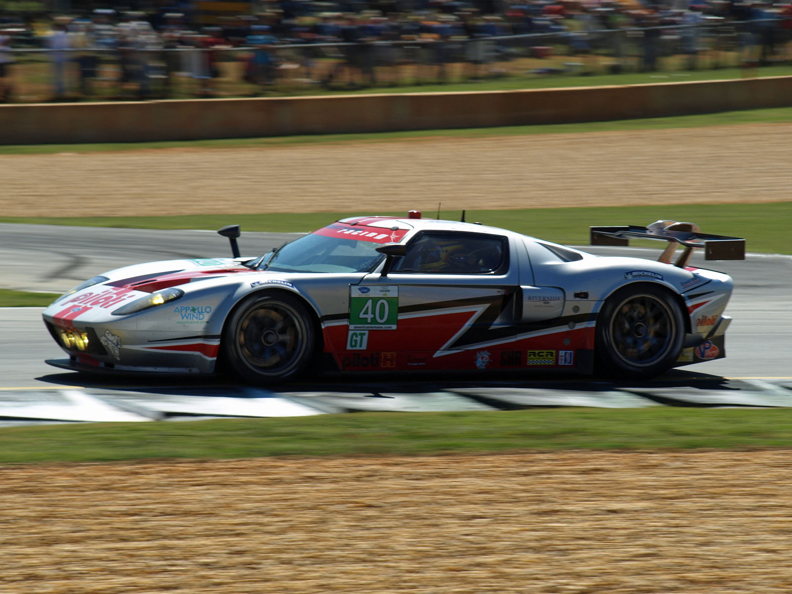 David Murry driving the Robertson Racing Ford GT-R in the 2011 Petit Le Mans at Road Atlanta.